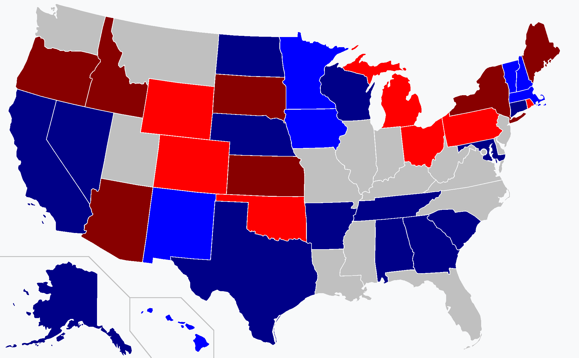 A map showing the results of the 1962 United States Gubernatorial elections